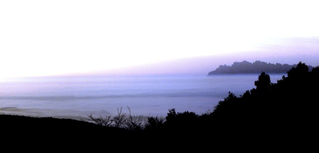 Montserrat and the fog (Catalonia)